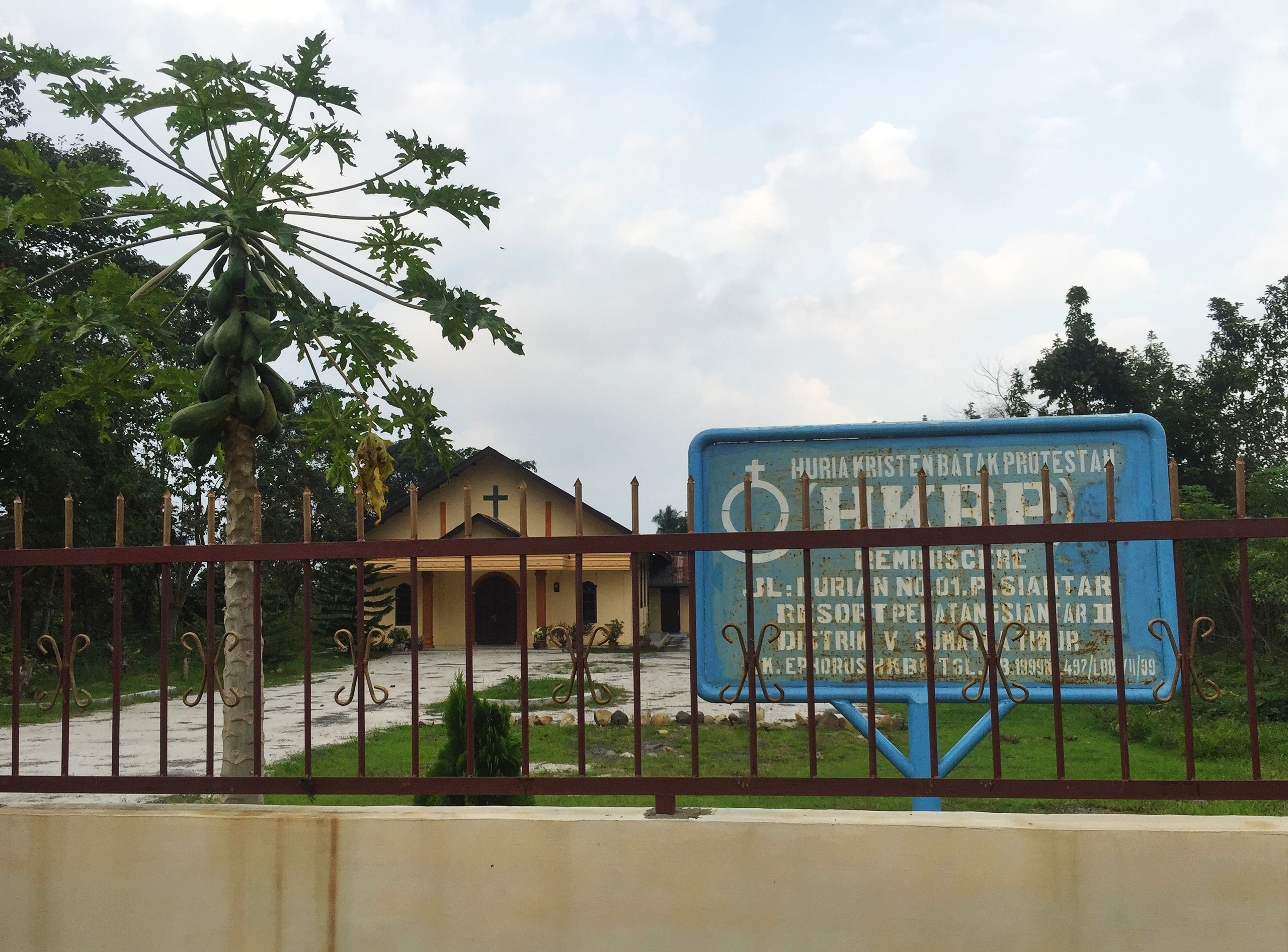 HKBP Reminiscere, Church in Siantar Marihat, Pematangsiantar